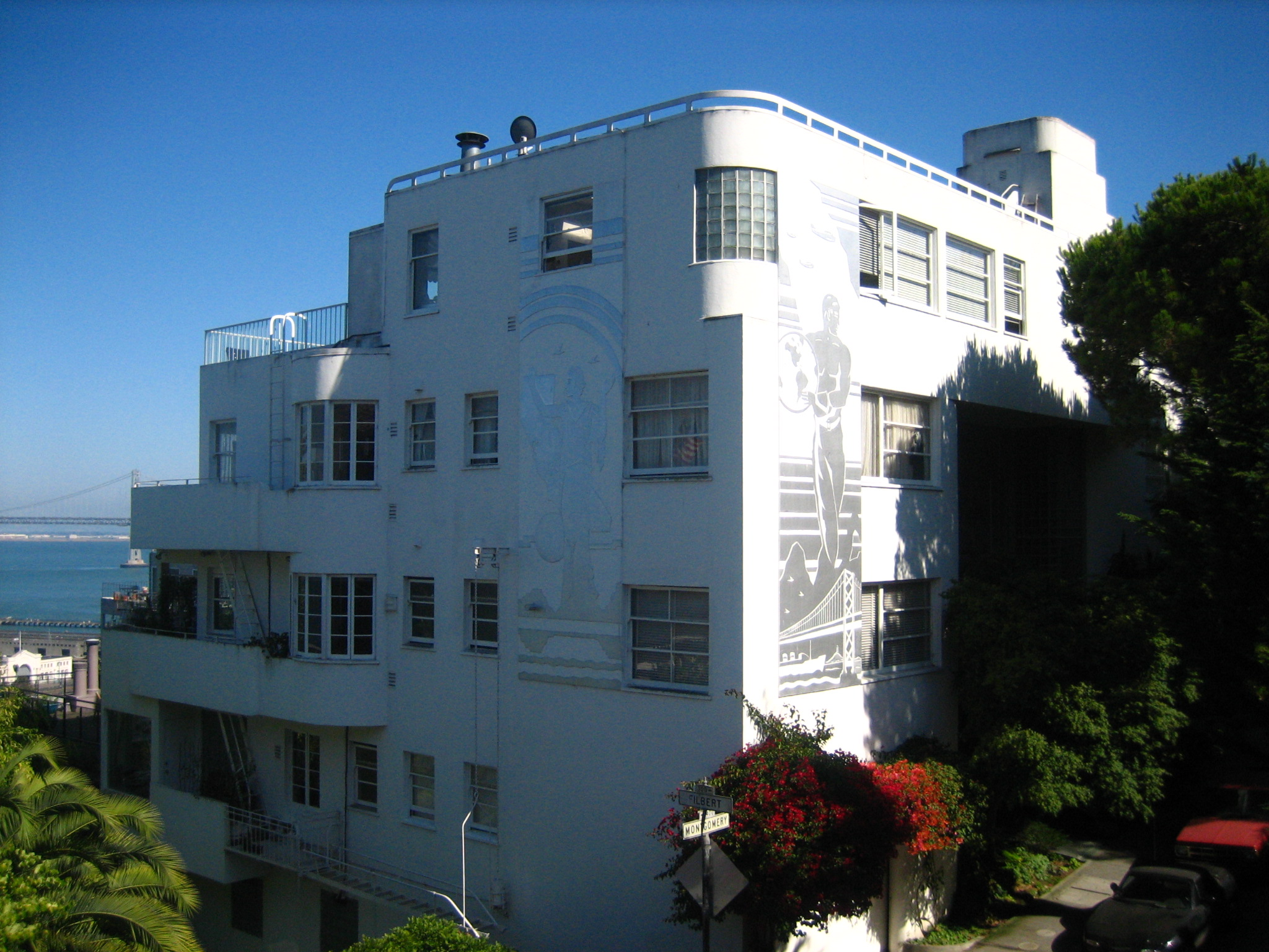 Photograph of the Malloch Building at 1360 Montgomery Street at the intersection of Montgomery and the Filbert Steps. The building was used as Lauren Bacall's apartment in the 1947 noir film, Dark Passages.